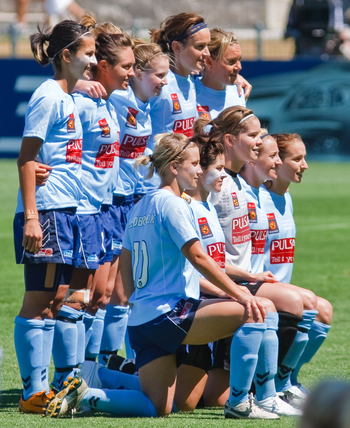 The Sydney FC W-League starting team for the 2009 Grand Final.